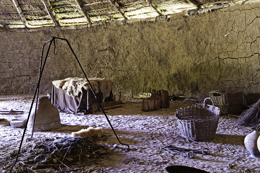 Celtic iron age roundhouse